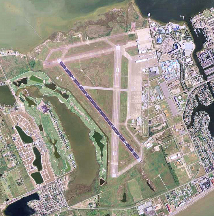 USGS digital orthophoto of Scholes International Airport at Galveston in Texas